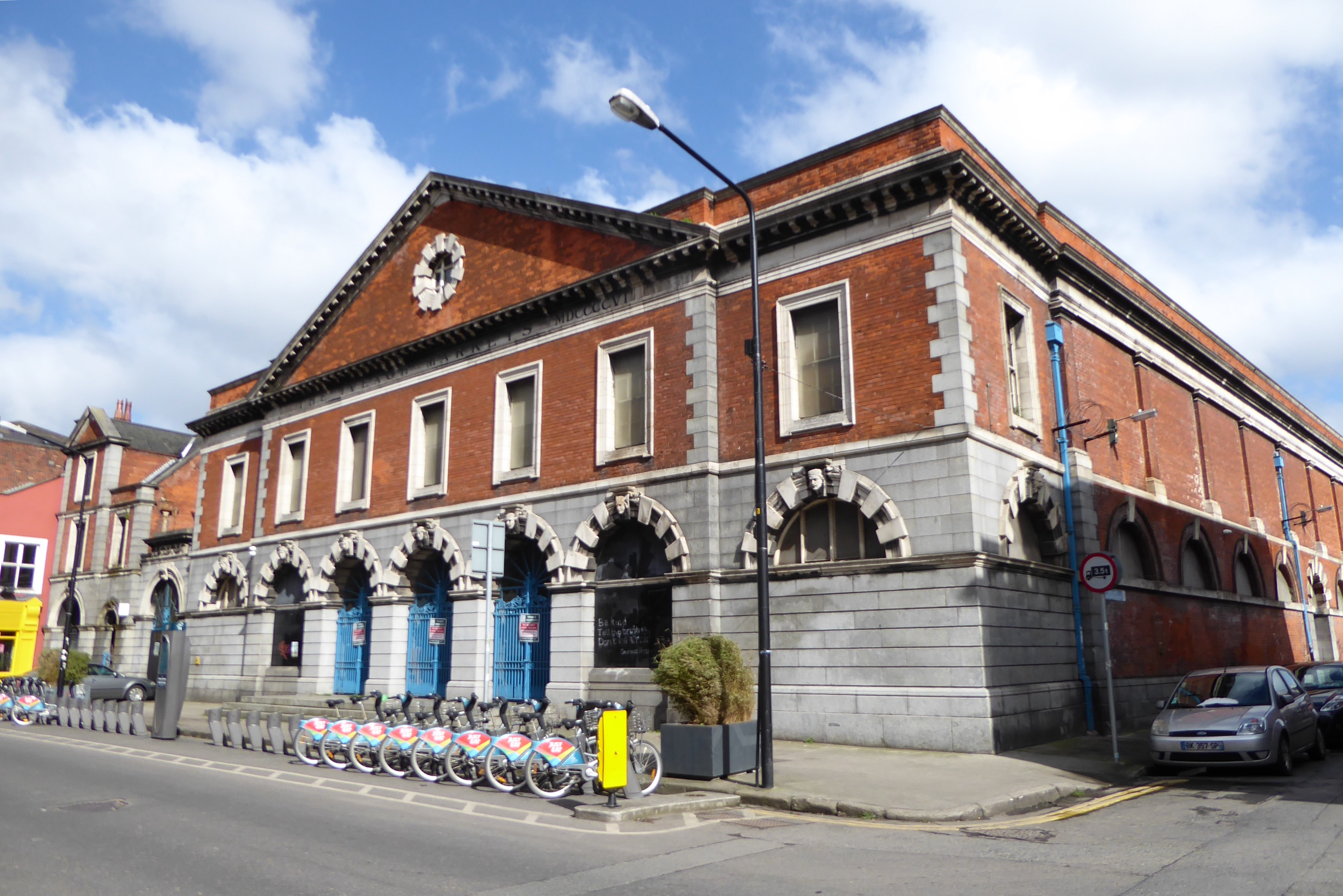 One of the entrances to the abandoned Iveagh Markets in Dublin, Ireland.